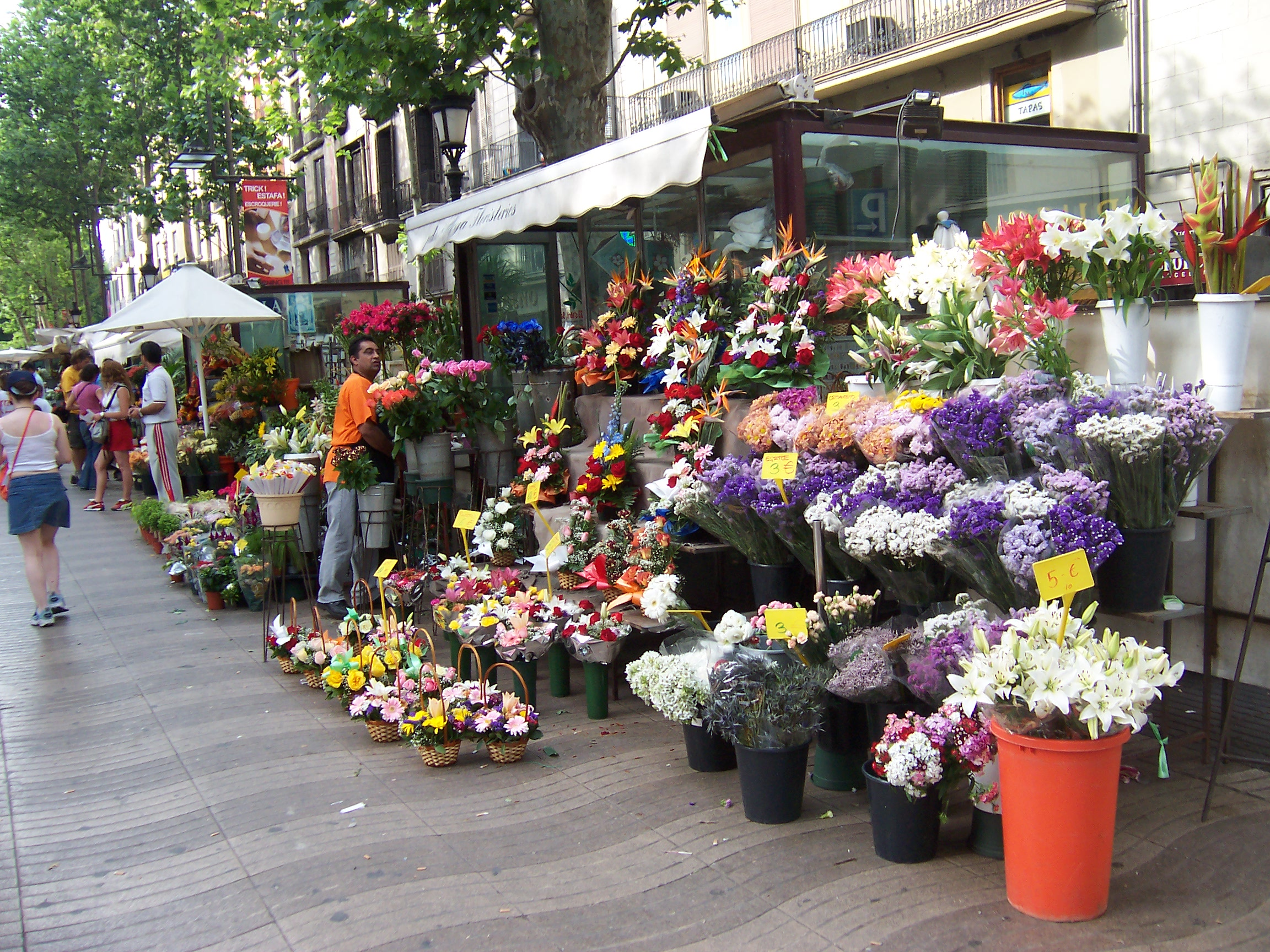 “Les Rambles”, Barcelona.